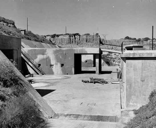 Battery Whistler at Point Loma, California (USA), in 1948.